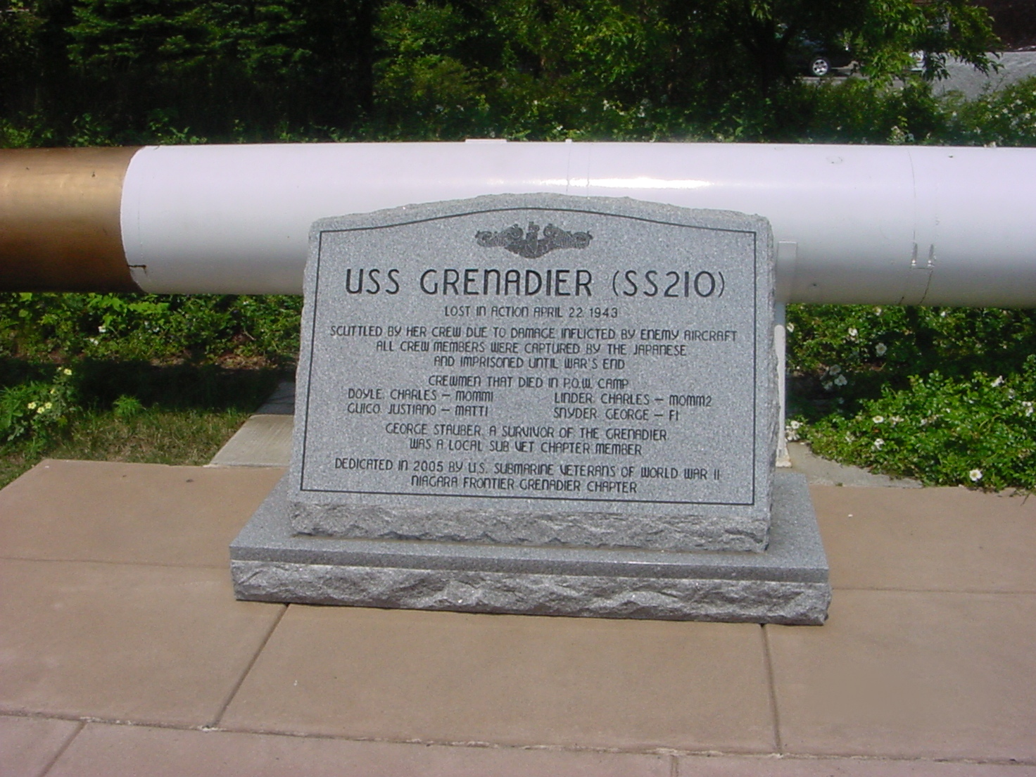 Photo I took of the U.S.S. Gernadier memorial at the Buffalo and Erie County Naval & Military Park